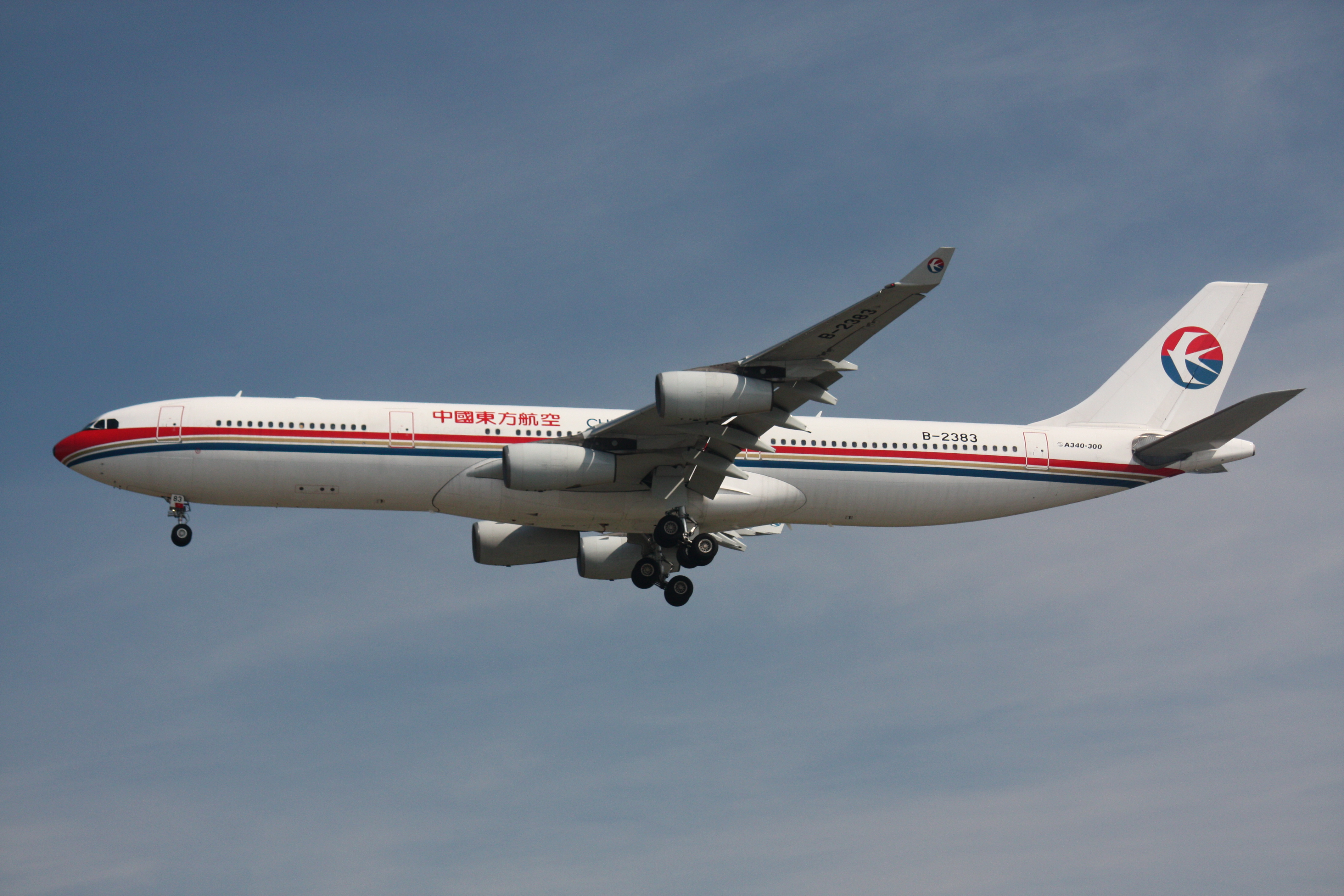 A China Eastern Airlines Airbus A340-313X landing at Vancouver International Airport